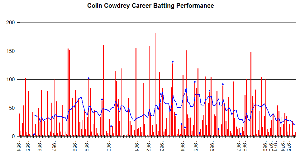 This graph details the Test Match performance of Colin Cowdrey. It was created by Raven4x4x. The red bars indicate the player's test match innings, while the blue line shows the average of the ten most recent innings at that point. Note that this average cannot be calculated for the first nine innings. The blue dots indicate innings in which Cowdrey finished not-out. This graph was generated with Microsoft Excel 2002, using data from Cricinfo and .au.